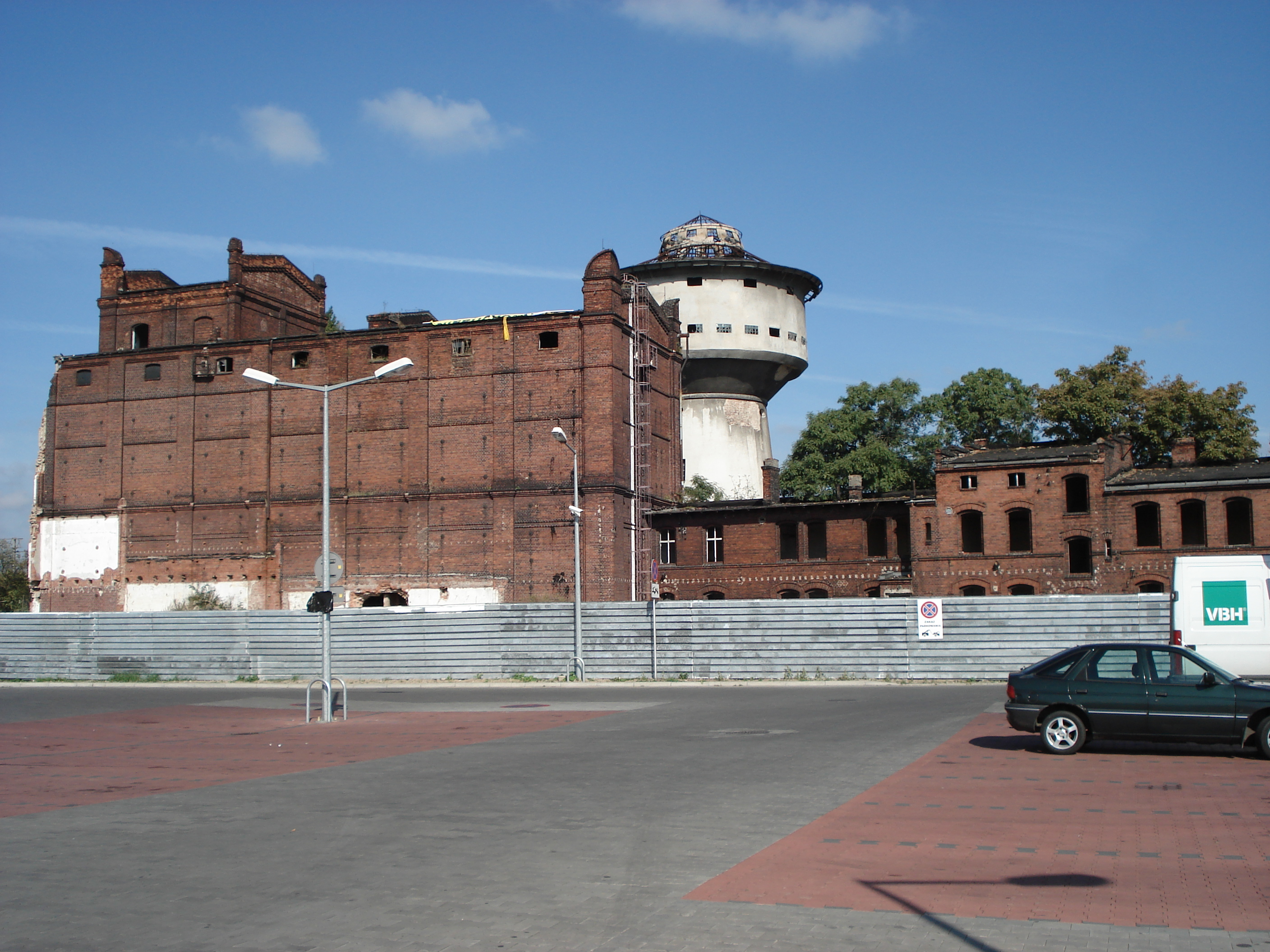 Remnants of indutrial buildings in District Wilda of Poznań